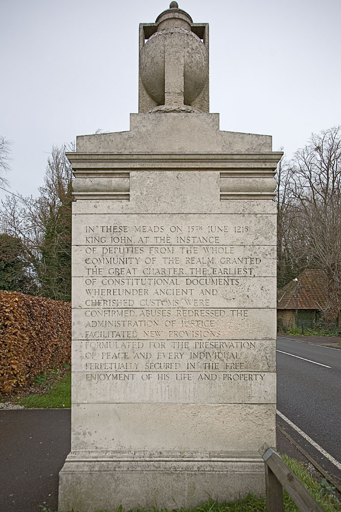 Lutyens designed pillar at Runnymede with inscription commemorating Magna Carta